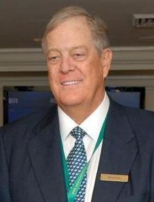 portait of David Koch (or David Hamilton Koch ; Chairman of the Board and initial funder to the Americans for Prosperity Foundation of Americans for Prosperity Foundation)